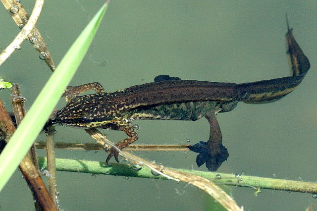 Male Triturus helveticus from Commanster, Belgian High Ardennes (50°15'20``N,5°59'58``E)